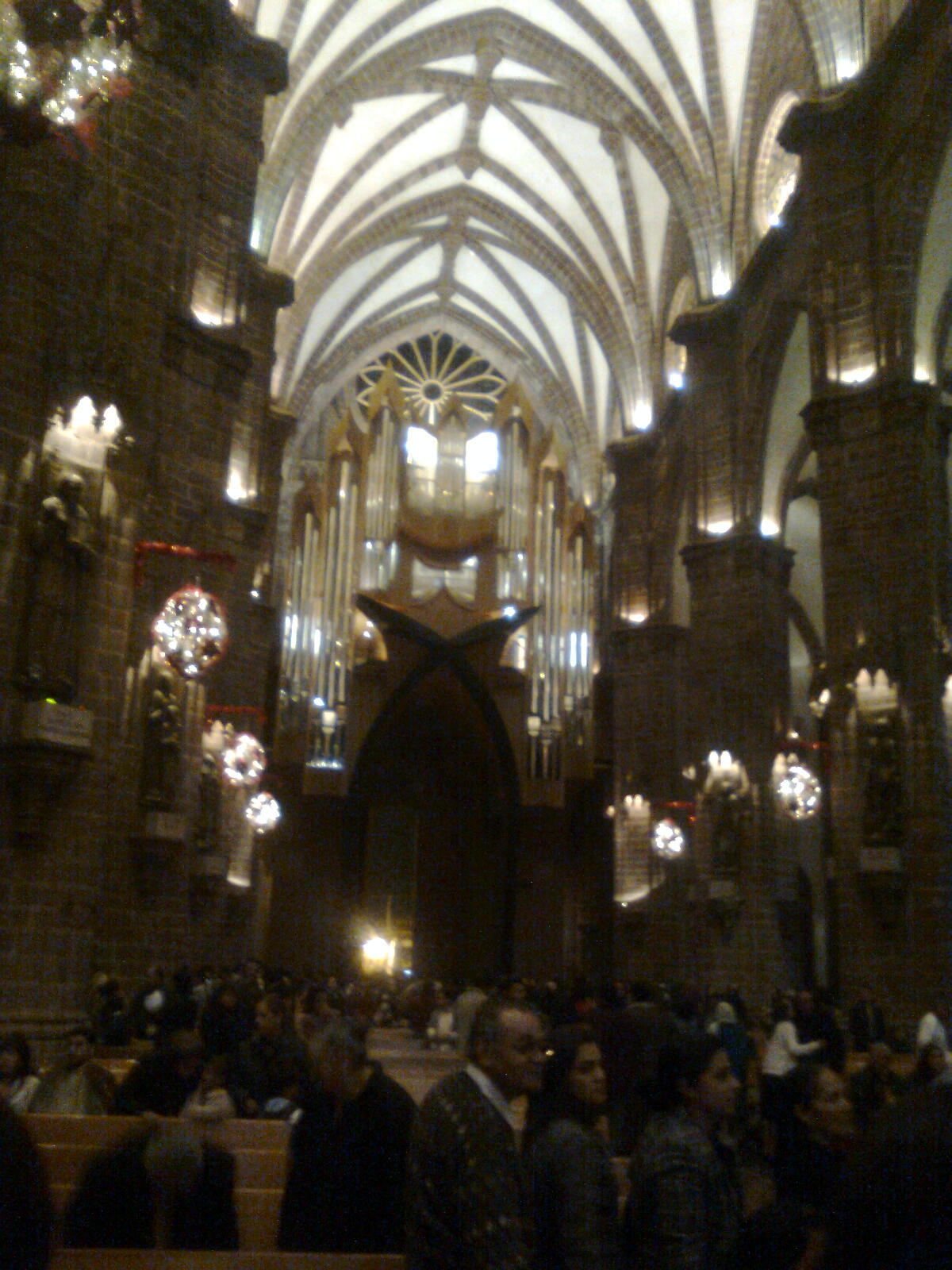 Organo del santuario de guadalupe